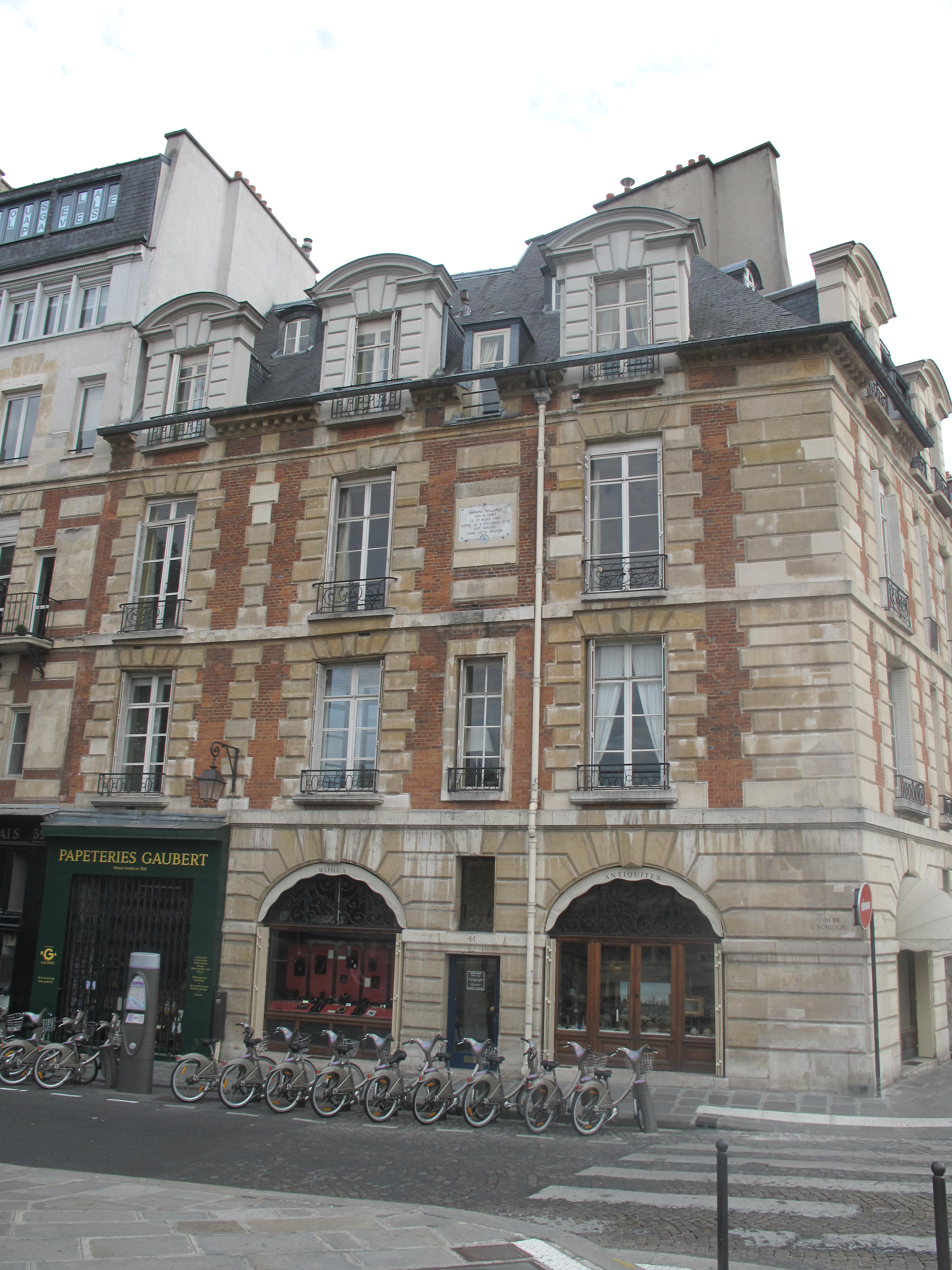 House were grew Madame Roland, 41 quai de l'Horloge, Paris 1st arr.